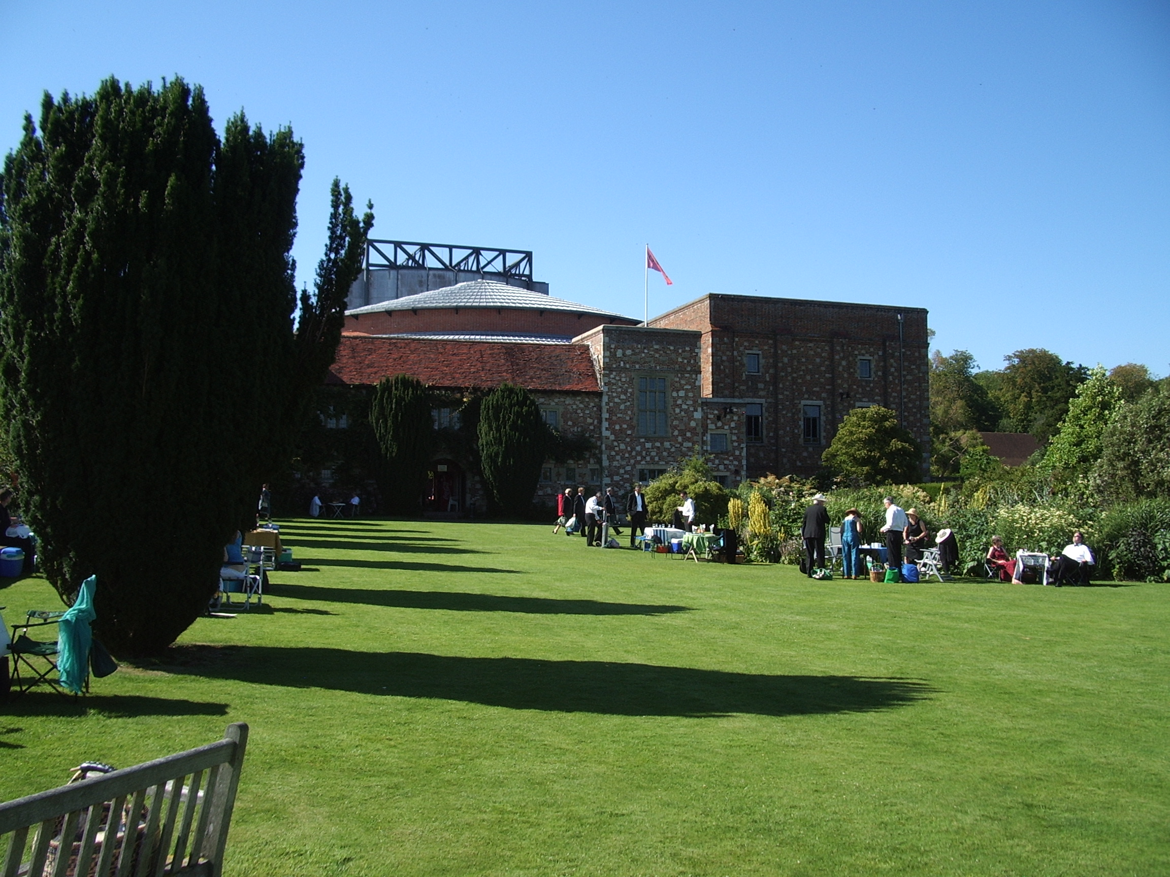 The auditorium at Glyndebourne HouseGlyndebourne Opera